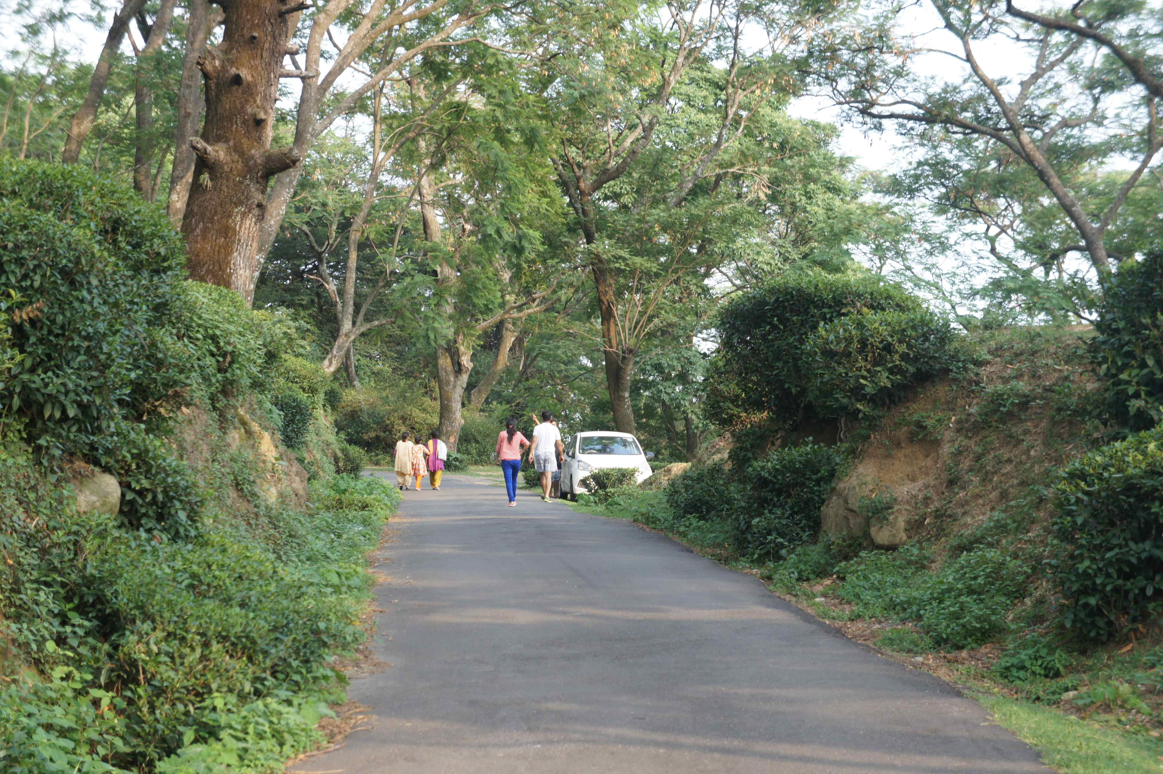 Tourists and locals take a walk through the Mann Tea Estate in Dharamsala. Located just 5 mins from the HPCA Stadium in Dharmsala and 20 mins from McLeodganj.